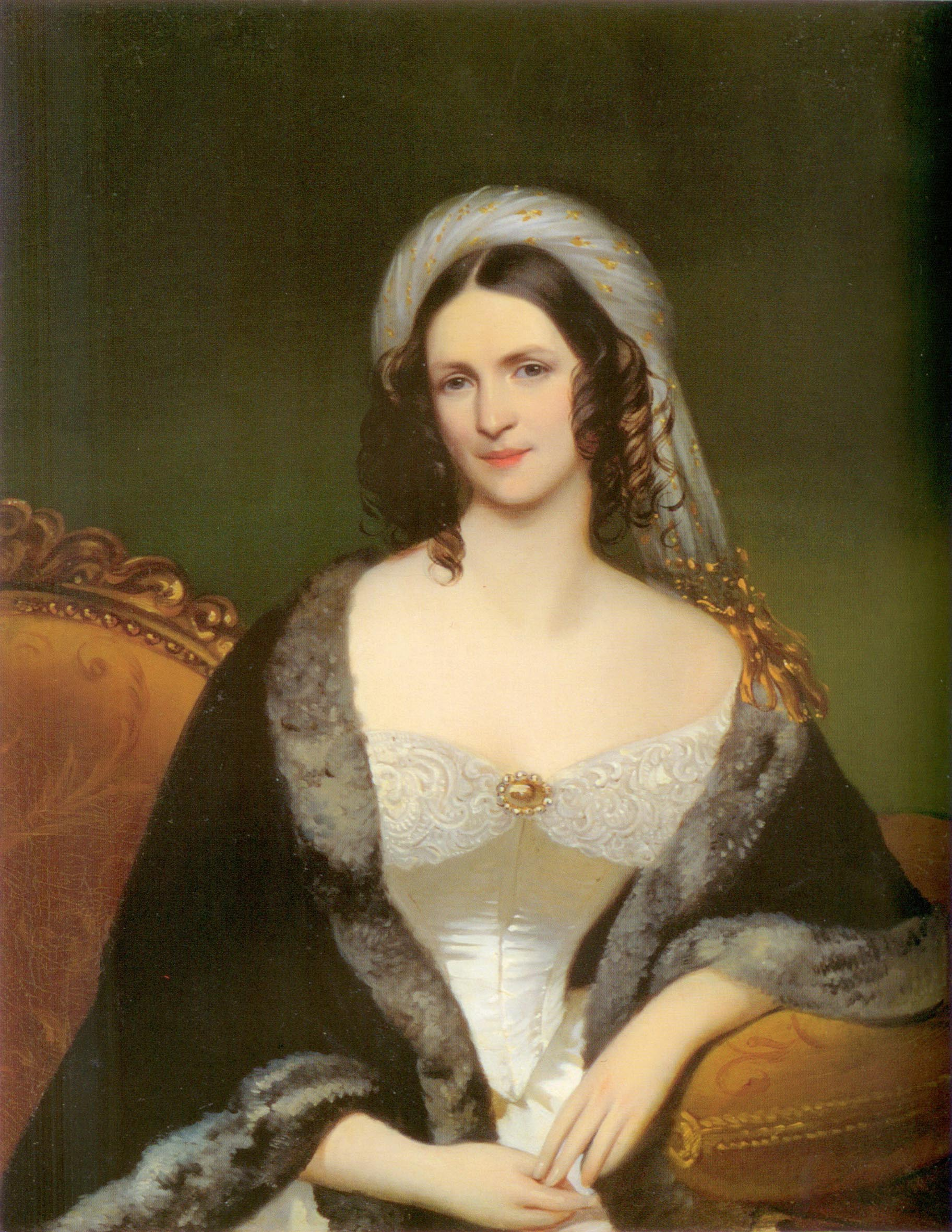 Countess Sofia Stepanovna Apraksina(1798-1885)